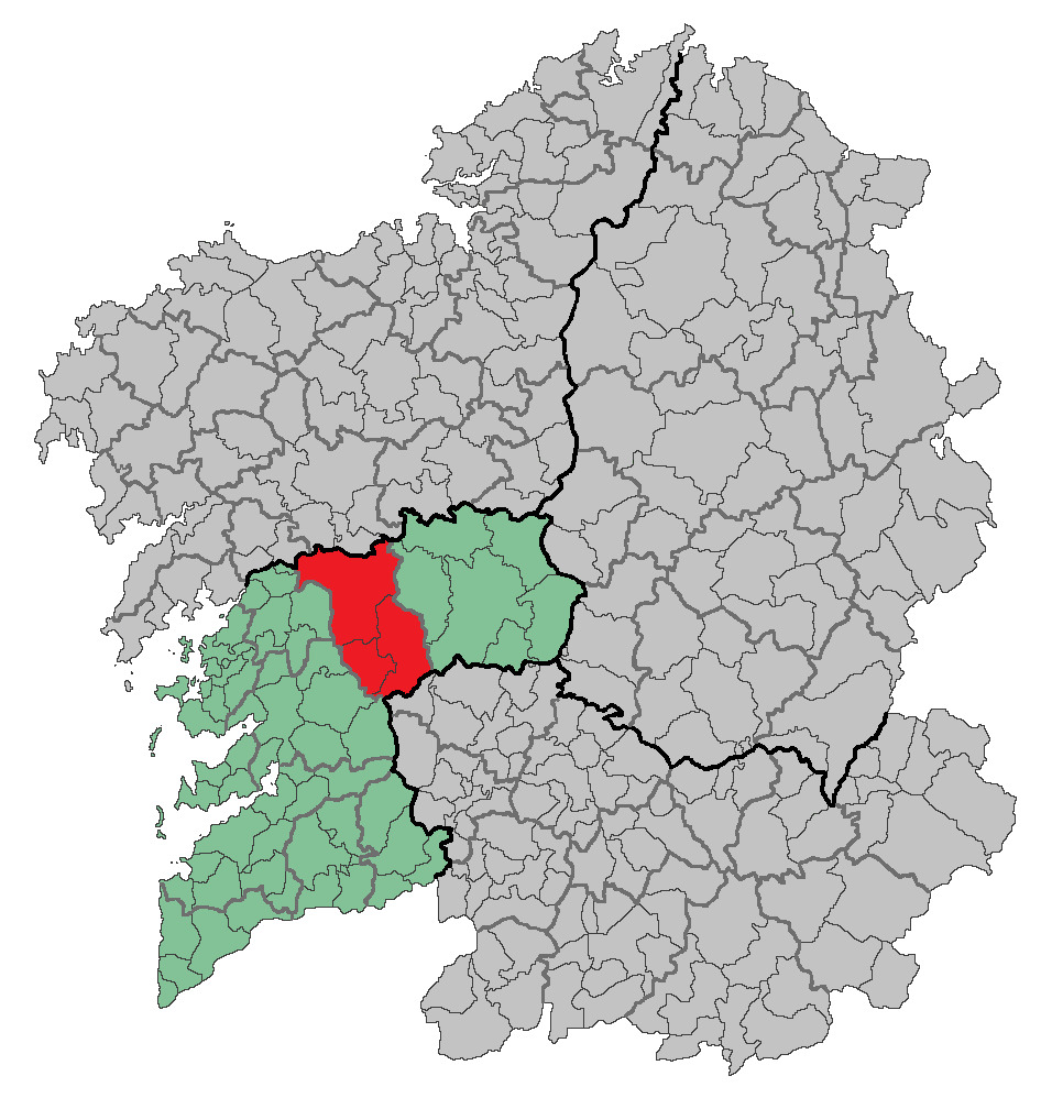 Region of Galicia (Spain) Based in: Image:Location of Betanzos.png Source: Designed by Leoplus. Original picture, designed by Caiser over a work made by Alyssalover.